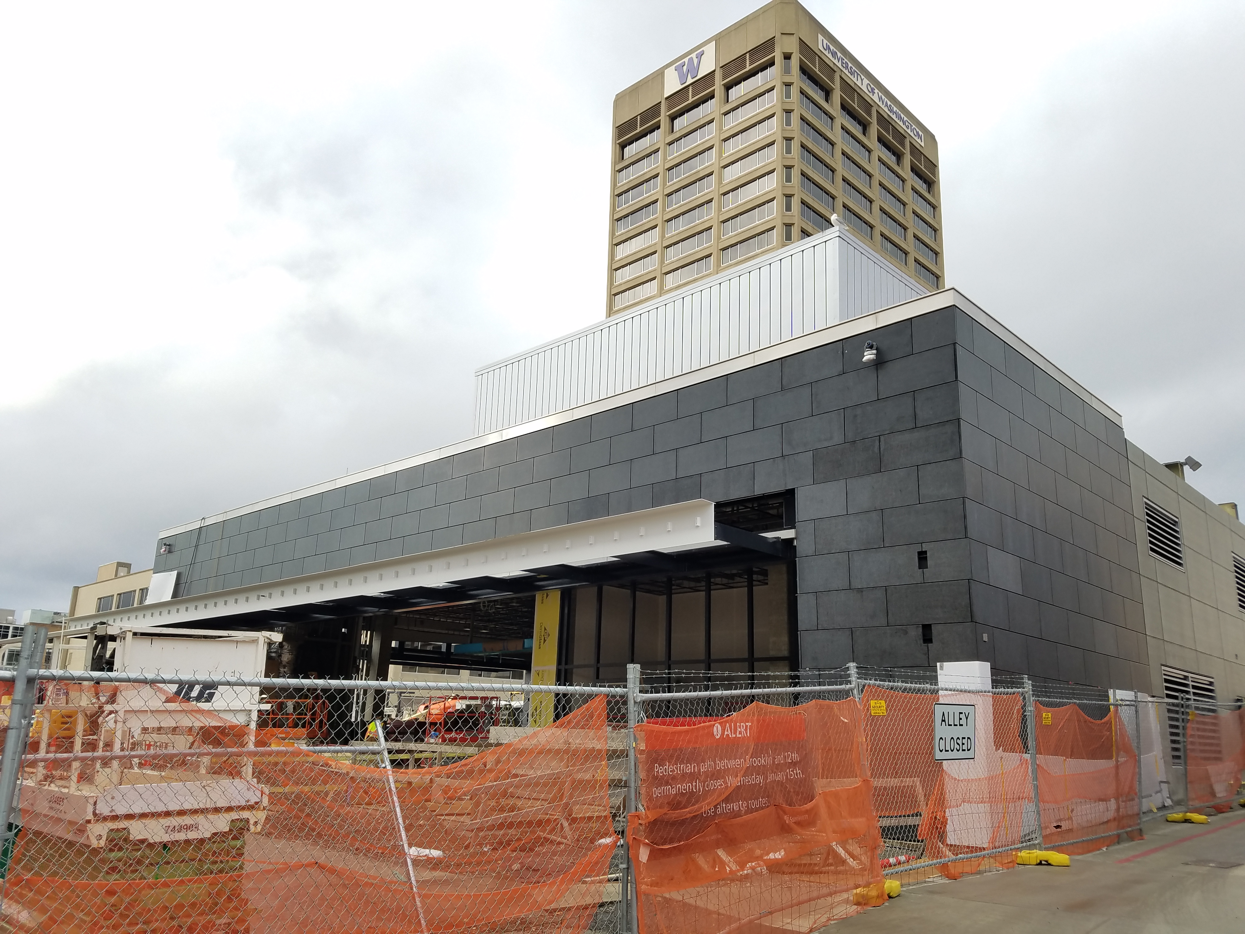 View from the south of the headhouse of Seattle's U District light rail station under construction in February 2020. The University of Washington tower is visible in the background.